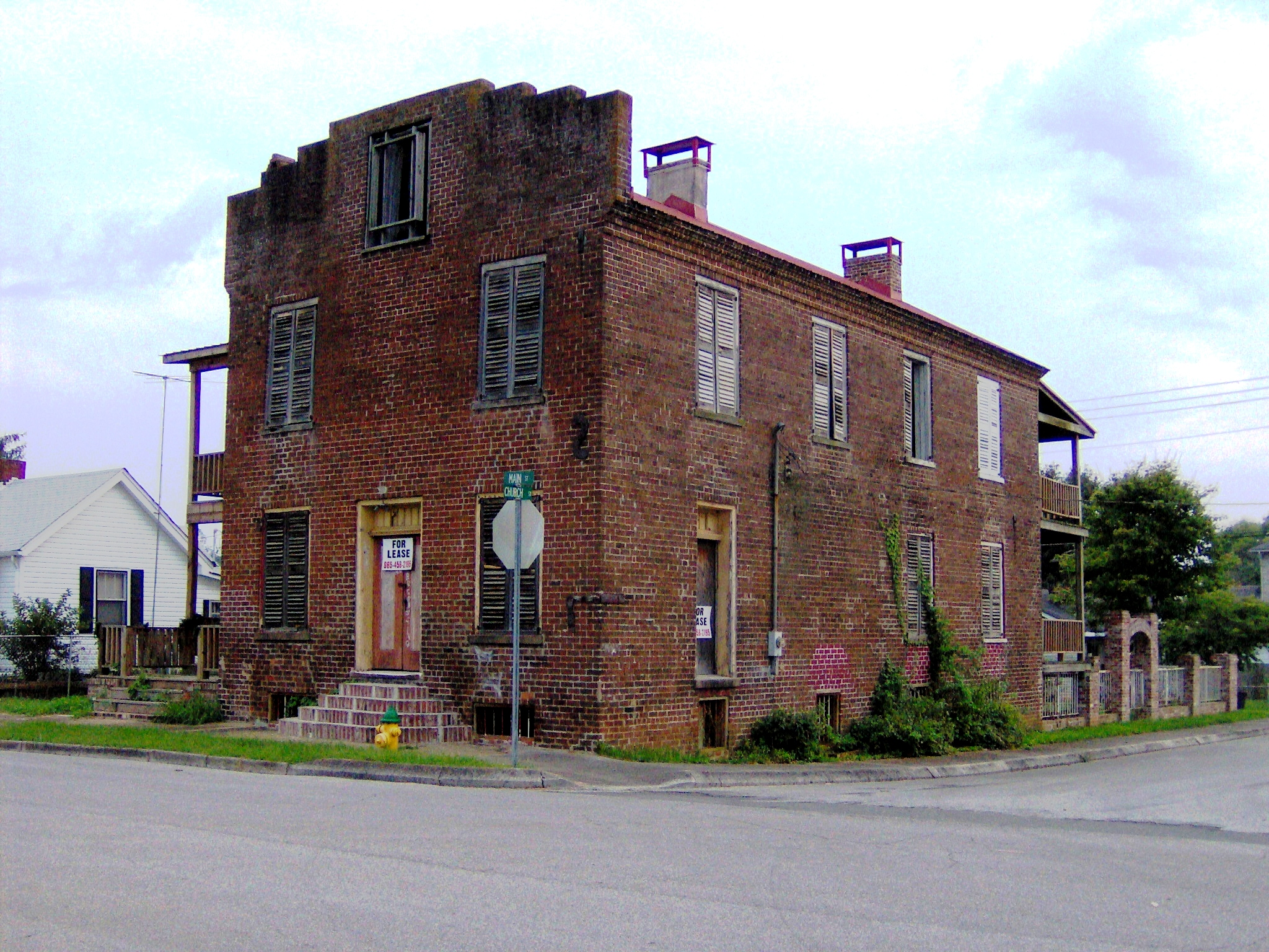 Blair's Ferry Storehouse in Loudon, Tennessee, USA. Built in 1834, this building is the last remaining structure from Loudon's original waterfront.